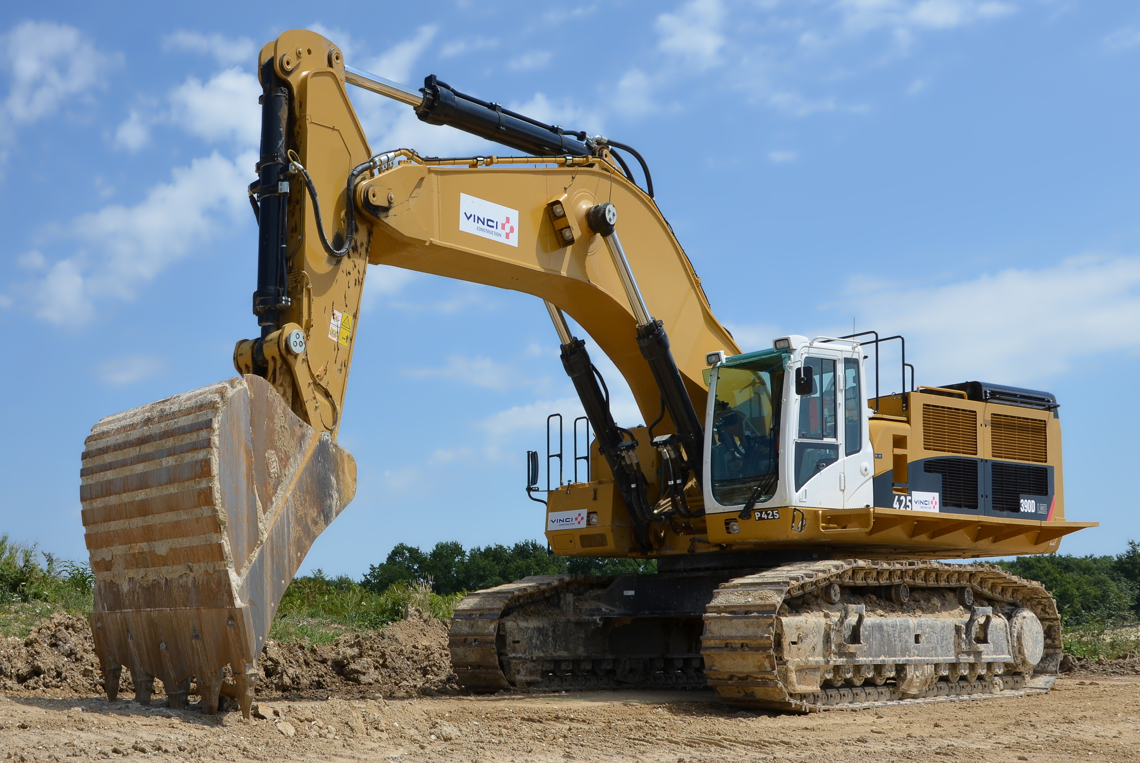 Excavator Caterpillar 390 LME, Poullignac, Charente France.